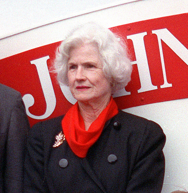 Cropped version focusing on Roberta McCain. Original caption was:Members of the christening party for the guided missile destroyer JOHN S. MCCAIN (DDG-56) pose for a photograph after the launching at the Bath Iron Works shipyard. They are from left to right: Sen. John McCain; Mrs. John S. McCain Jr.; Sidney McCain; Meghan McCain, maid of honor; and Cindy McCain, sponsor and wife of Sen. McCain. Location: BATH, MAINE (ME) UNITED STATES OF AMERICA (USA)